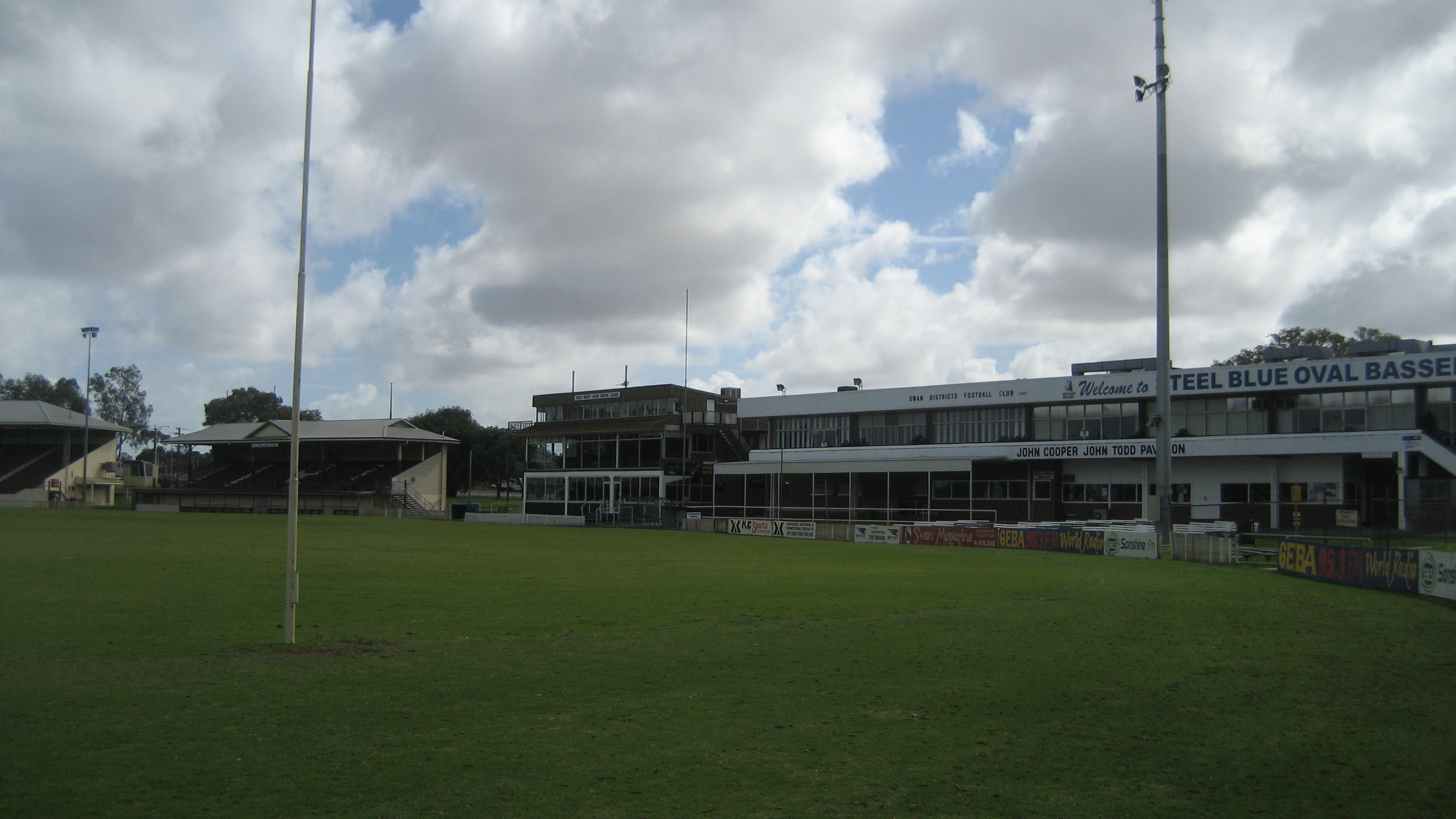 Bassendean Reserve2, Perth, Western Australia